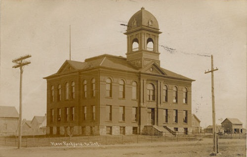 Photo postcard of Eddy County Courthouse, New Rockford, North Dakota. Public domain published before 1923. Source info at NDSU web site lists postmark date of Oct. 5, 1908.